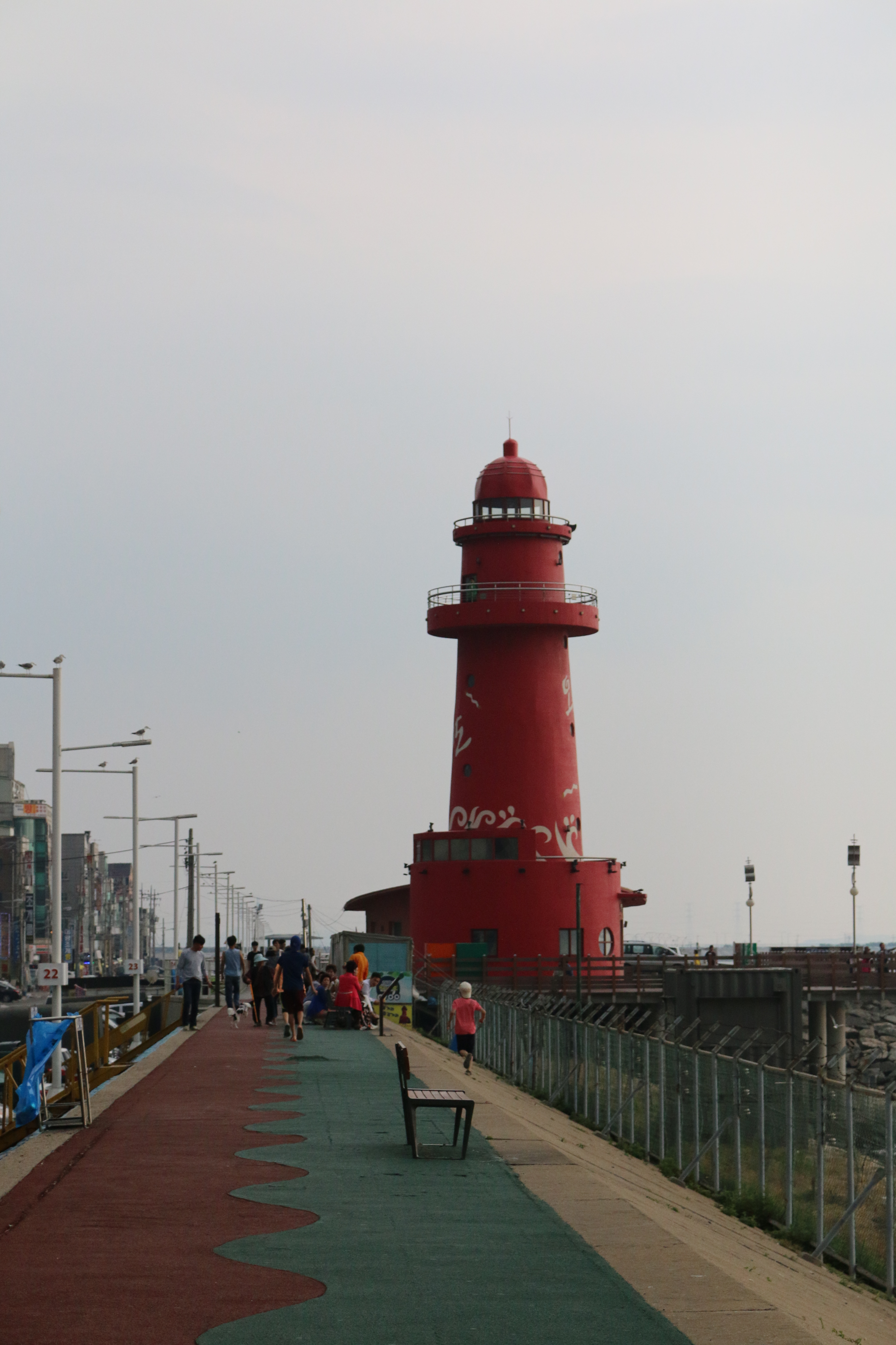 The city of Oido